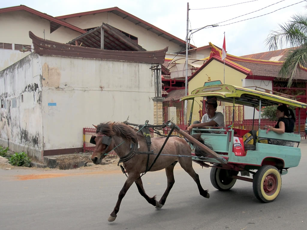 horse cart passing the Chinese temple in Ampenan, Lombok